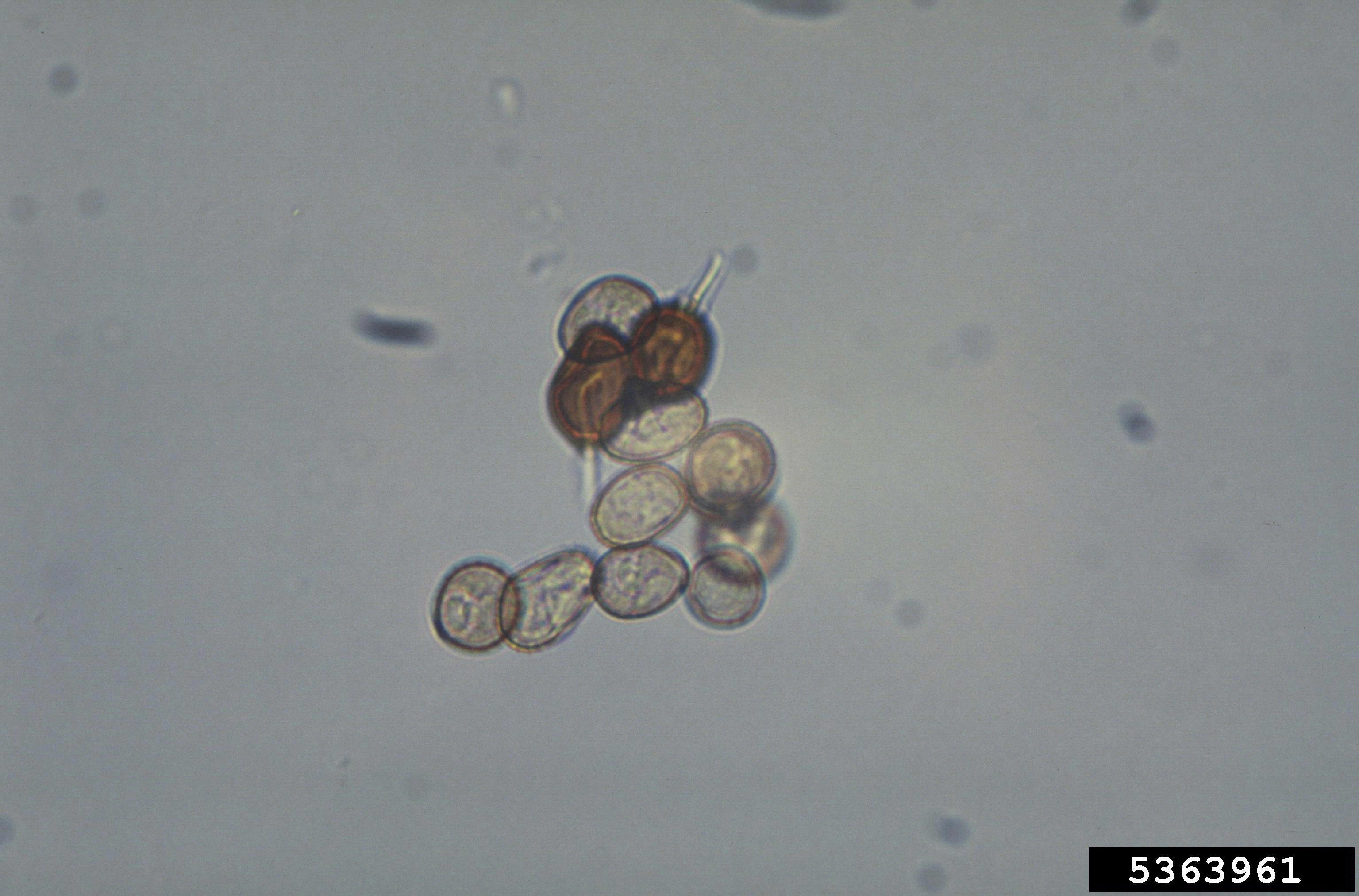 Uromyces appendiculatus, Urediniospores and teliospores